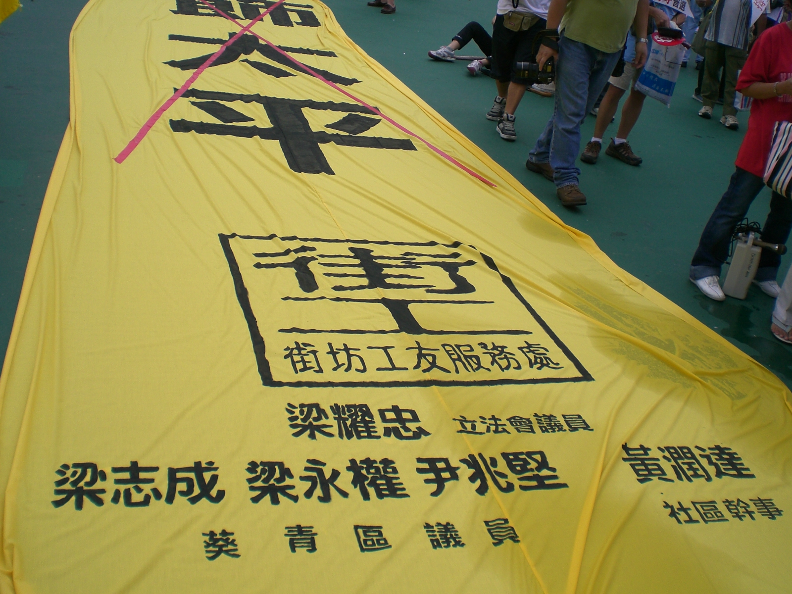 Author= VP7071 街坊工友服務處 Neighbourhood and Worker's Service Centre